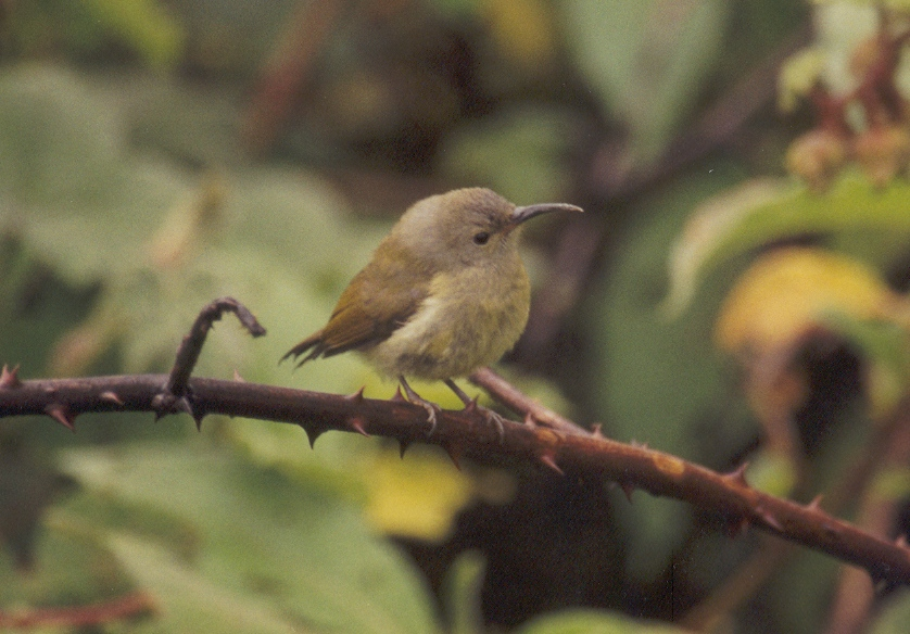 Green-tailed Sunbird Aethopyga nipalensis angkanensis (female) Taken by Duncan Wright at Doi Inthanon National Park